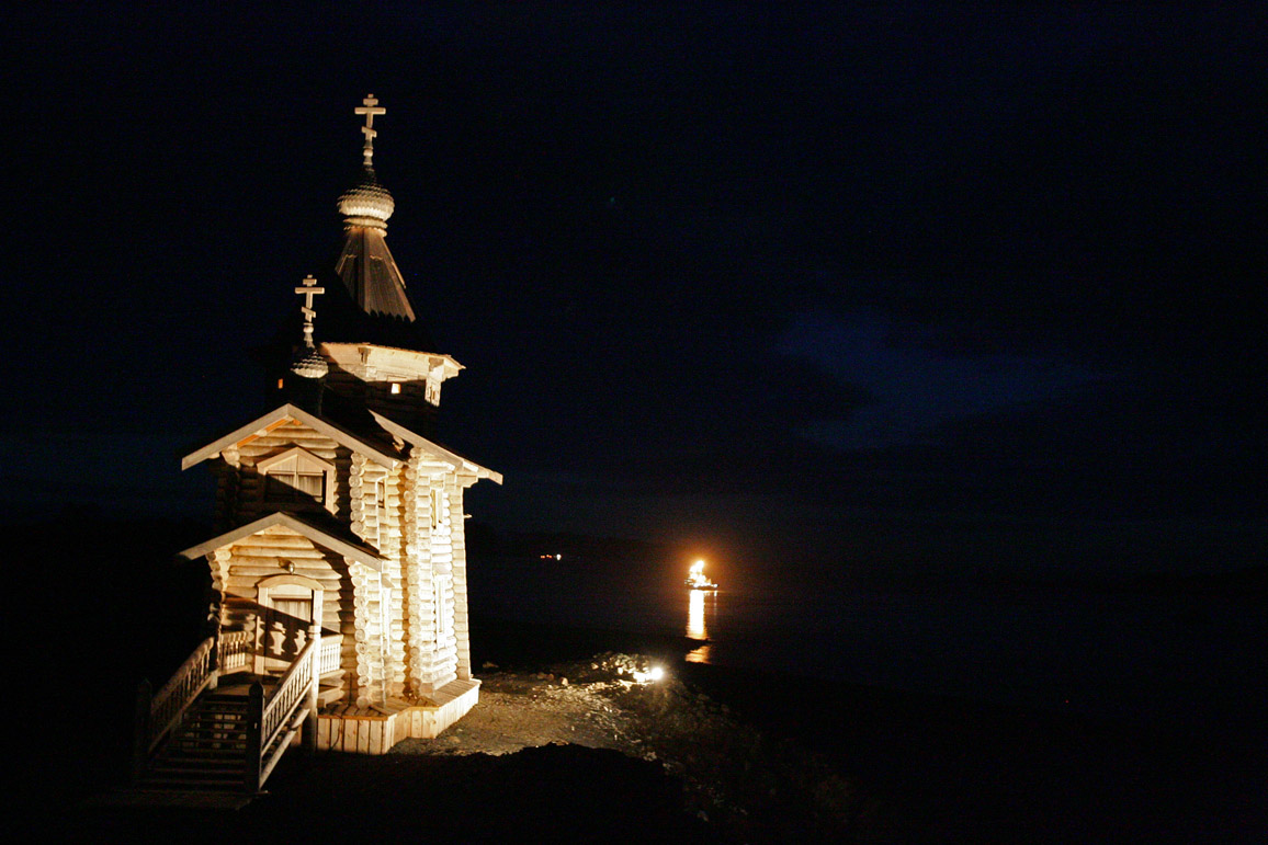 Overnight at Bellingshaussen, Antarctica 2005